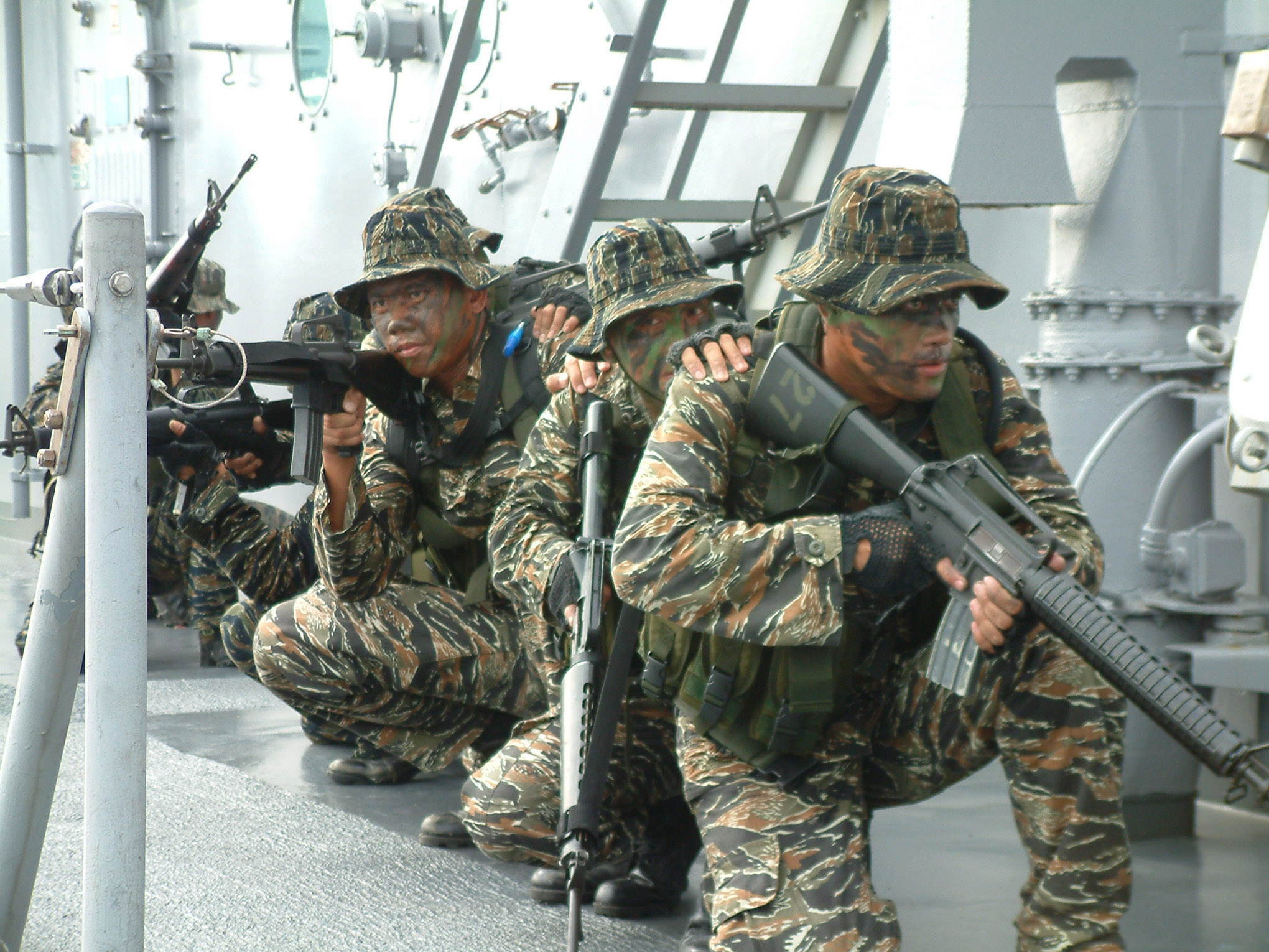 Subic Bay, Philippines (July 30, 2004) - Members assigned to the Philippine Naval Special Warfare Group (SWAG) Nine One crouch low and move together on the deck aboard the amphibious dock landing ship USS Fort McHenry (LSD 43) during an inport maritime boarding event. The boarding was part of the Philippines phase of exercise Cooperation Afloat Readiness and Training (CARAT). CARAT is a regularly scheduled series of bilateral military training exercises with several Southeast Asia nations designed to enhance the interoperability of the respective sea services. U.S. Navy photo by Lt.j.g. Todd Spitler (RELEASED)